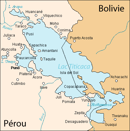 Map of Lake Titicaca translated in french